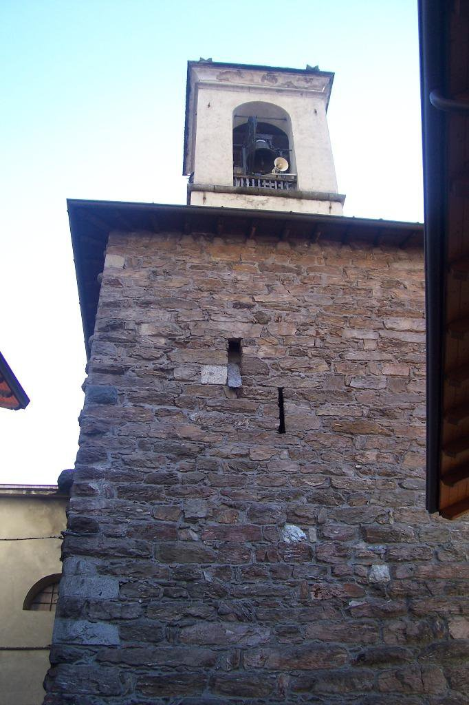 Church tower. Church of St Lawrence. Demo, Berzo Demo, Val Camonica